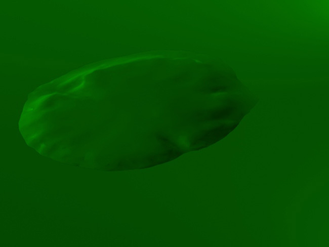 Rendered Digital Image of Rathcroghan mound. Jan 2007